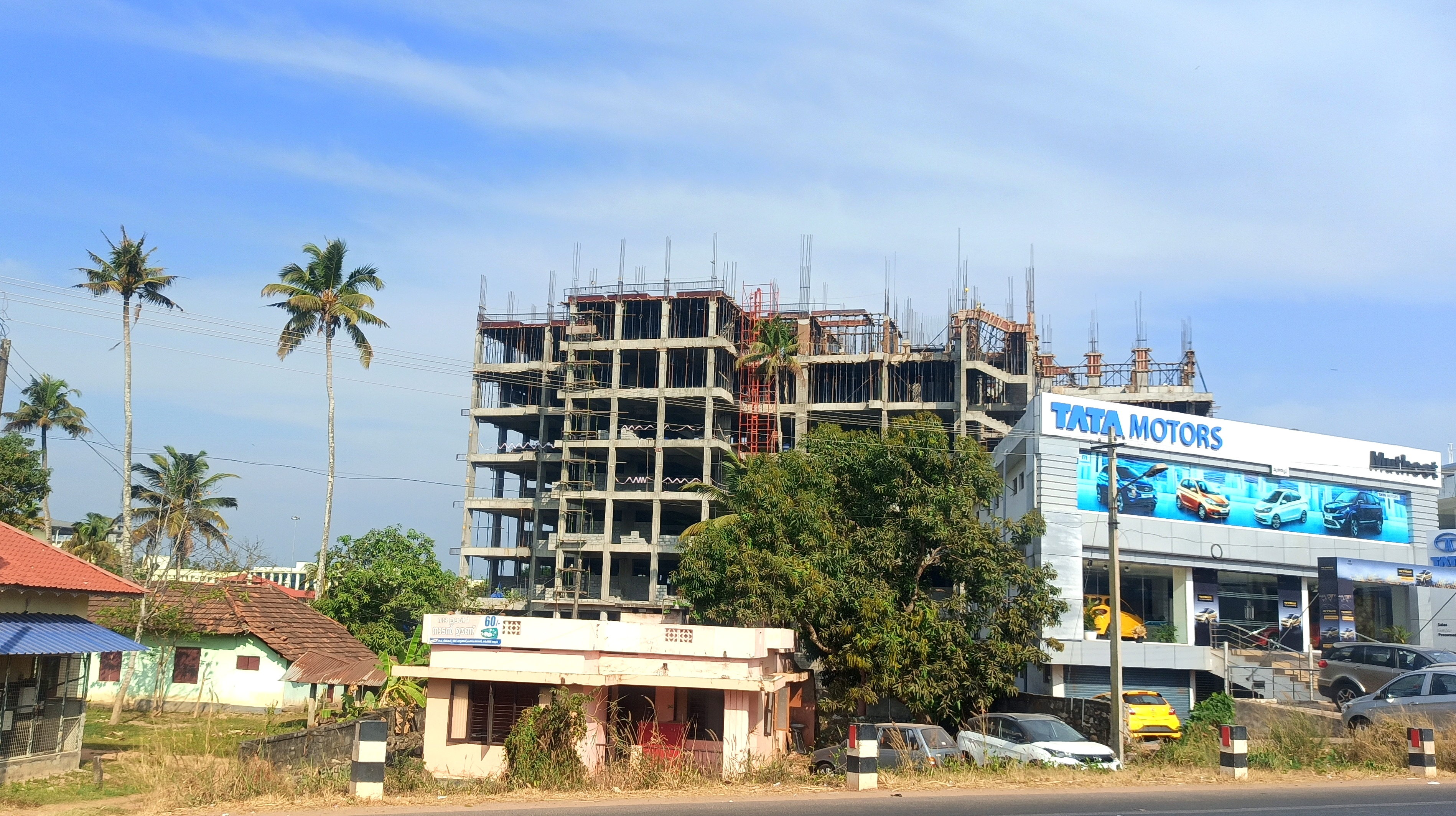 N. S. Medland is a healthcare project by Kollam District Co-operative Hospital Society, comes up at Palathara in Kollam city, India. The NS Multi Super Specialty Hospital is the first of its kind in the entire South Kerala.